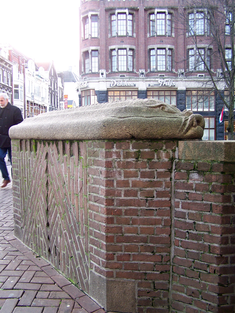 Part of a bridge over the Prinsengracht in Amsterdam along the Leidsestraat. The figure of the fictive animal is made by Hildo Krop. The same figures can befound along all the bridges of the Leidsestraat. The bridges itself where a design of Piet Kramer, and where all made in 1921.